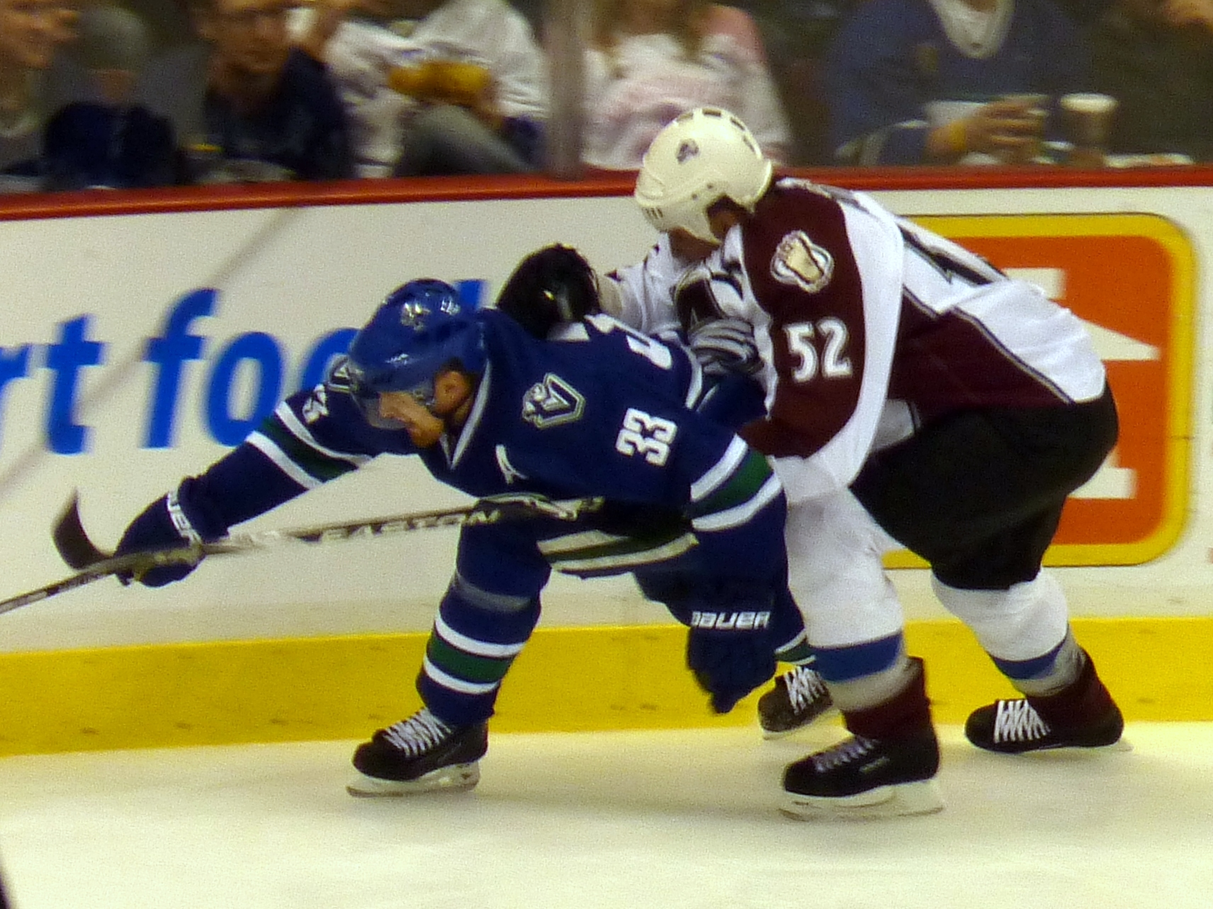 Vancouver Canucks forward Henrik Sedin reaching for a puck as Colorado Avalanche defenceman Adam Foote pursues him during a game on April 6, 2010.